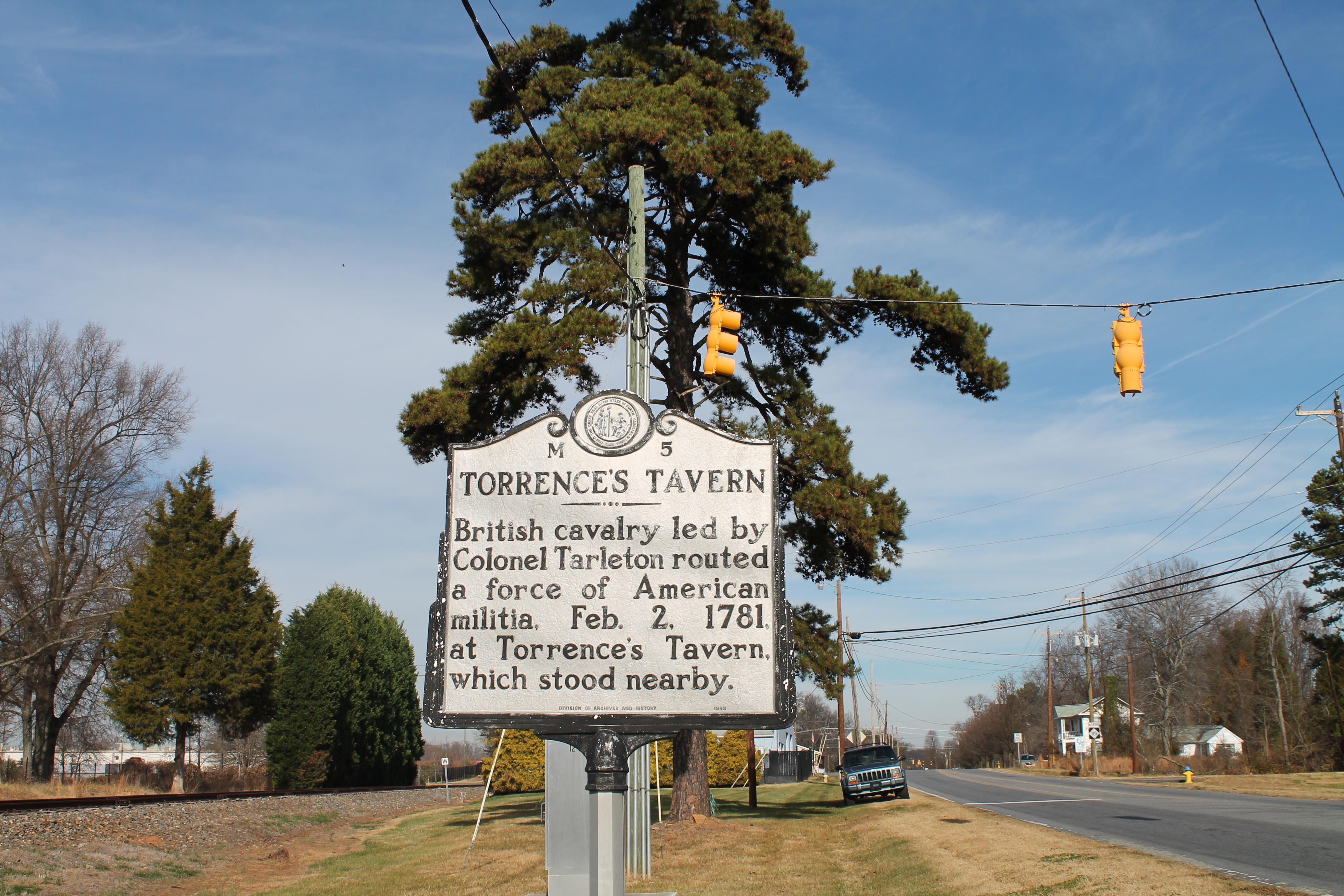 The NC historical marker commemorating the Battle of Torrence's Tavern at the intersection of Langtree Rd. and Hwy 115 in Mount Mourne, North Carolina Other information Copyright 2012 by Clark D. Tew